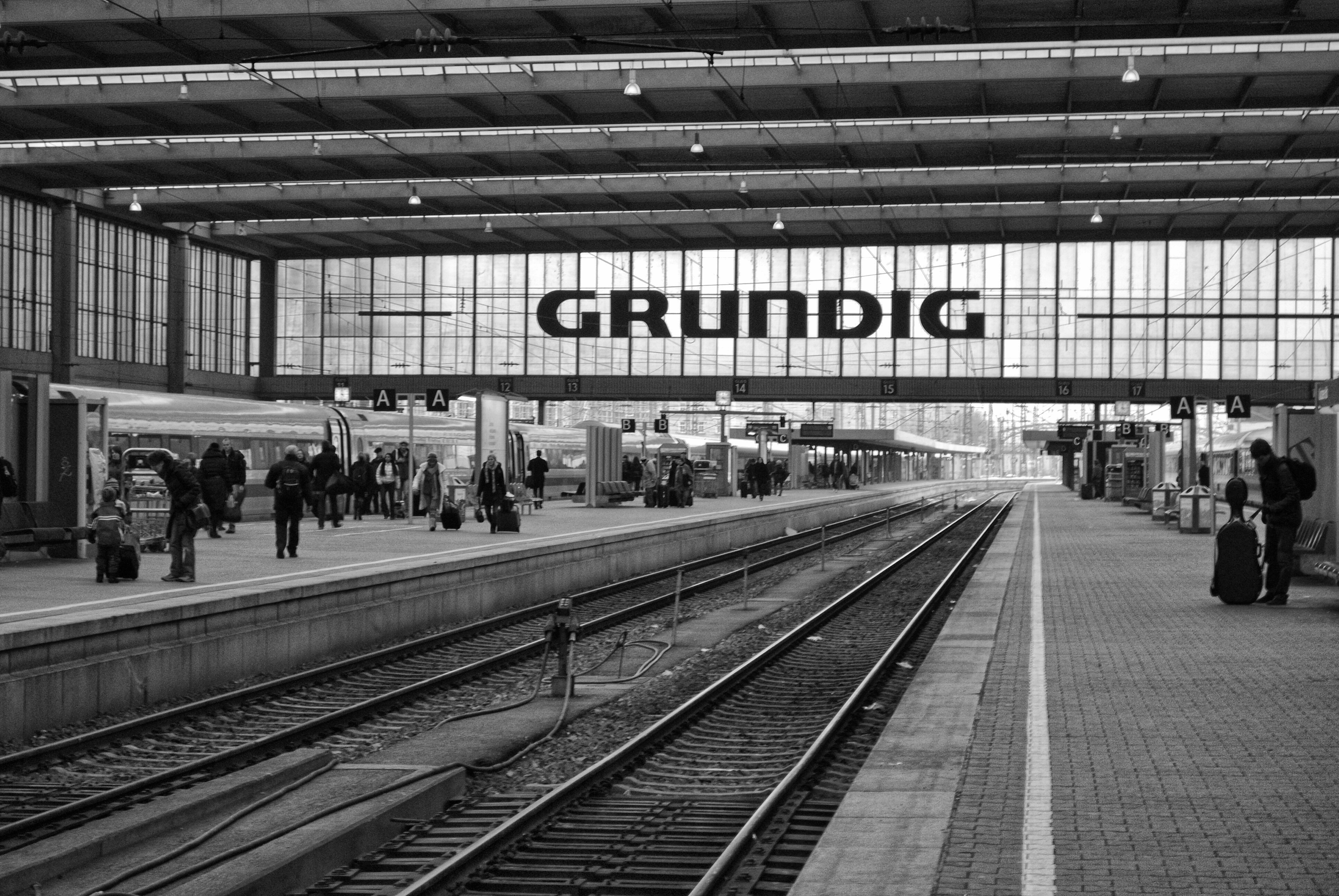 Munich Central Station